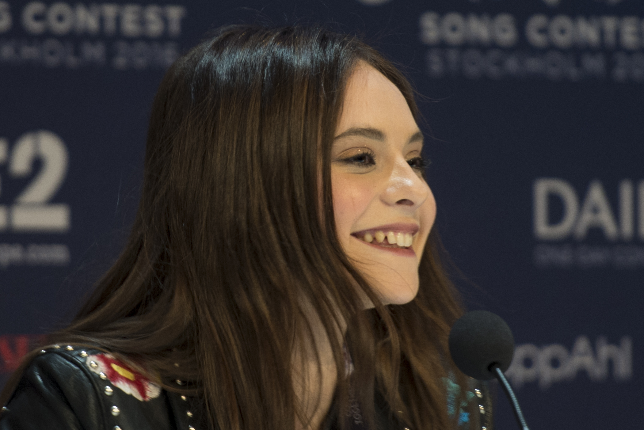 Francesca Michielin at a Meet & Greet during the Eurovision Song Contest 2016 in Stockholm. (Help translate this text)